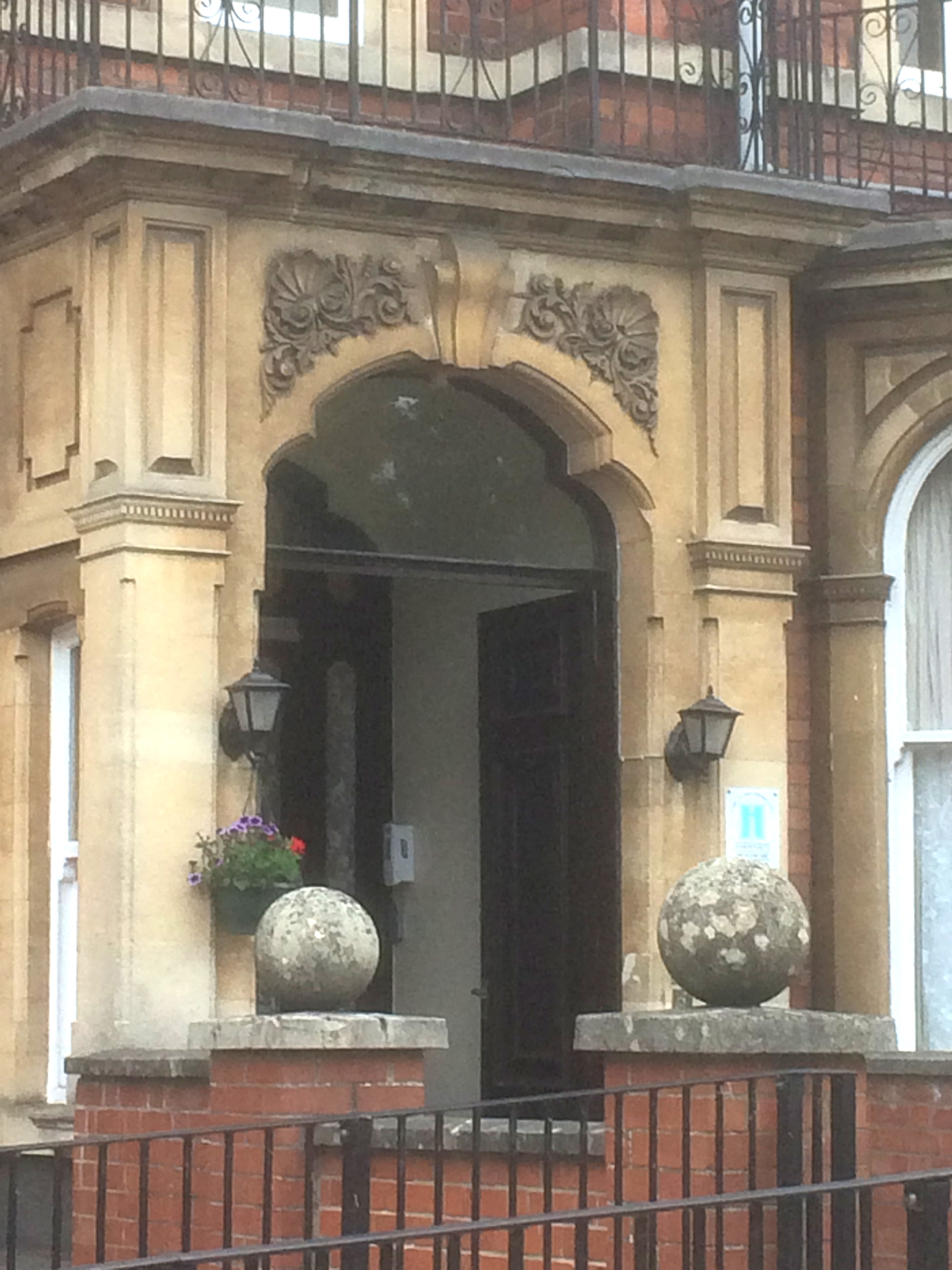 78 South Park, Lincoln